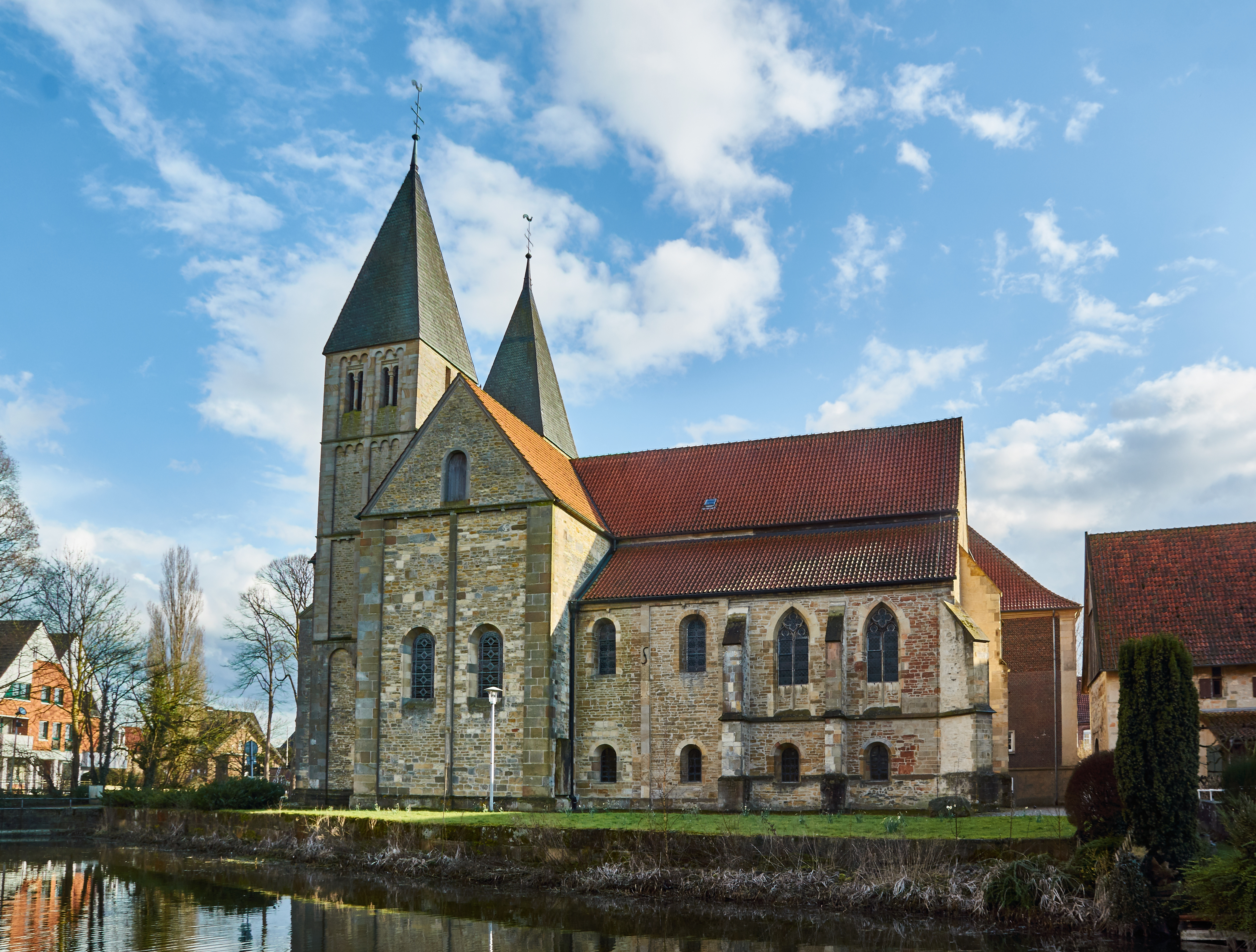 Church John the Baptist in Langenhorst, Ochtrup, North Rhine-Westphalia, Germany. This is a photograph of an architectural monument.